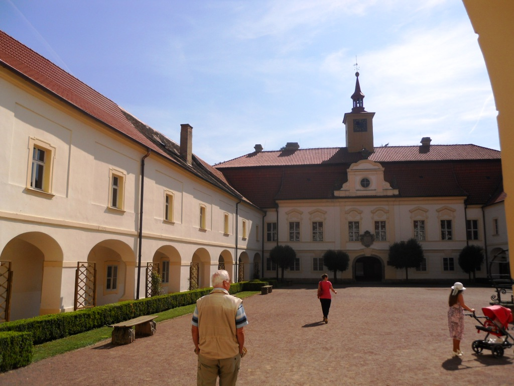 Chrast Castle courtyard to SE